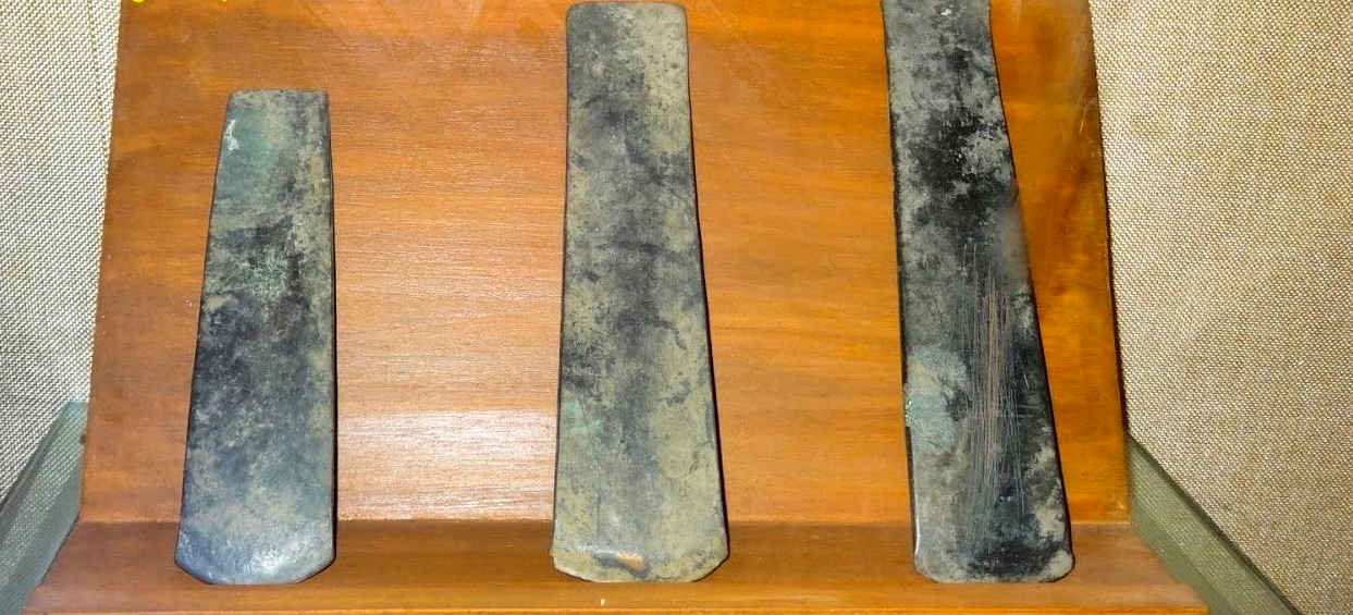 The Inscription contains the line Viraya Bhagavate chaturasiti vase, which can be interpreted as "dedicated to Lord Vira in his 84th year". 84 years after the Nirvana of lord Mahavira.